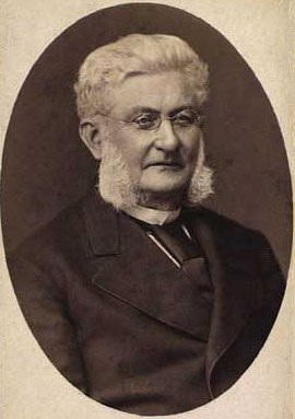 Johannes Peter Langgaard (1811-1890), Danish mechanic and industrialist